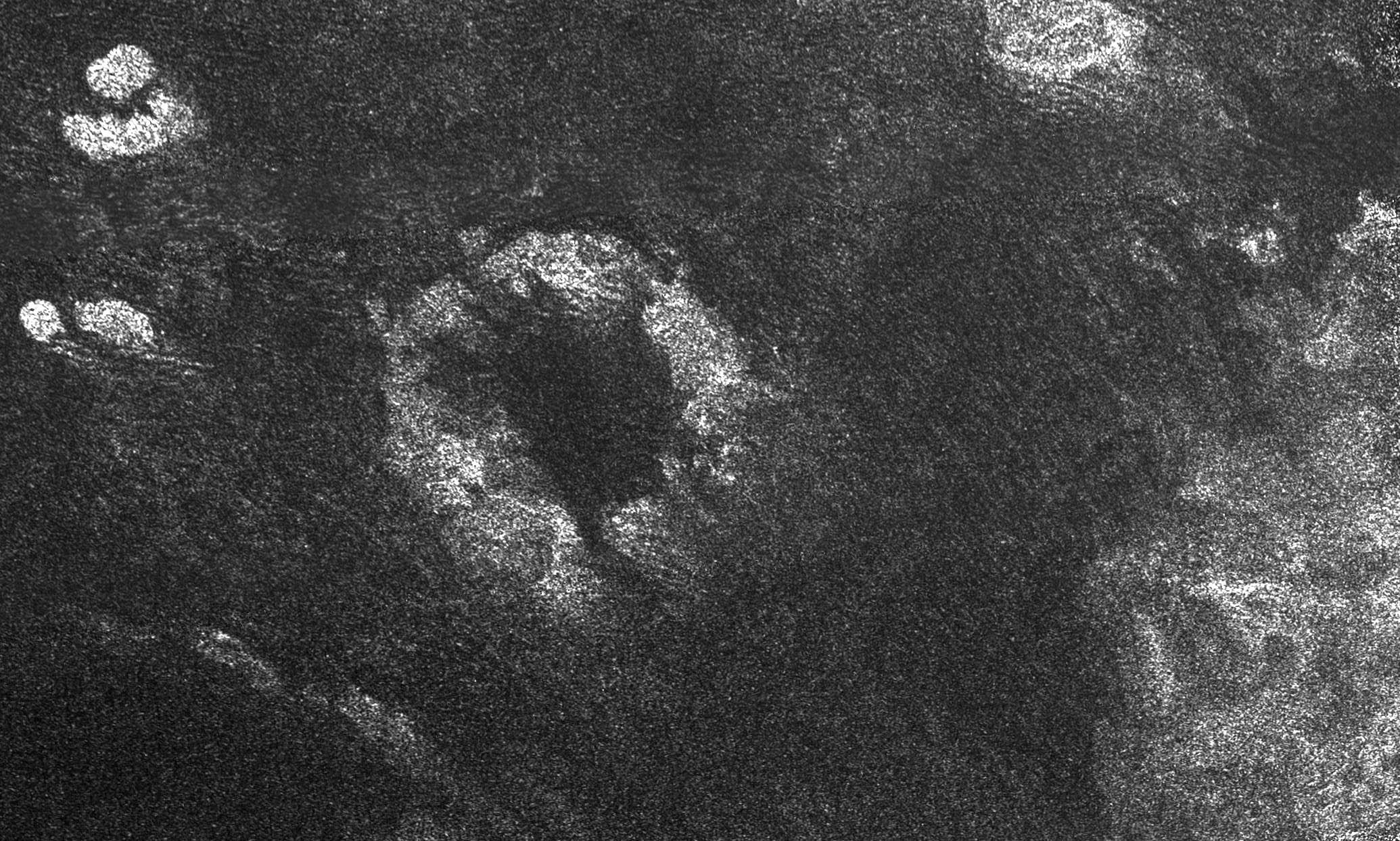 This image of Saturn's moon Titan from the Synthetic Aperture Radar instrument on the Cassini spacecraft shows the southwestern area of a feature called Xanadu (bottom right of the image). The area is bright because it reflects the radio wavelengths used to make this radar images. The image was taken on April 30, 2006. Xanadu is one of the most prominent features on Titan and was first seen in ground-based observations. The origin of Xanadu is still unknown, but this radar image reveals details previously unseen, such as numerous curvy features that may indicate fluid flows. Linear dark streaks visible in radar-dark areas are dune fields, also seen in previous radar images (see PIA03567). Near the center of the image is a prominent circular feature, named Guabonito, about 90 kilometers (56 miles) in diameter. It might be an impact crater or a cryovolcanic caldera. If this is an impact structure, the absence of an ejecta blanket suggests that the feature has been highly eroded, like some impact structures on Earth, or has been buried by the dune fields. Other radar-bright areas (top left and top right) appear to be topographically high and might act as obstacles, diverting the dunes around them. The Cassini-Huygens mission is a cooperative project of NASA, the European Space Agency and the Italian Space Agency. The Jet Propulsion Laboratory, a division of the California Institute of Technology in Pasadena, manages the mission for NASA's Science Mission Directorate, Washington, D.C. The Cassini orbiter was designed, developed and assembled at JPL. The radar instrument was built by JPL and the Italian Space Agency, working with team members from the United States and several European countries.